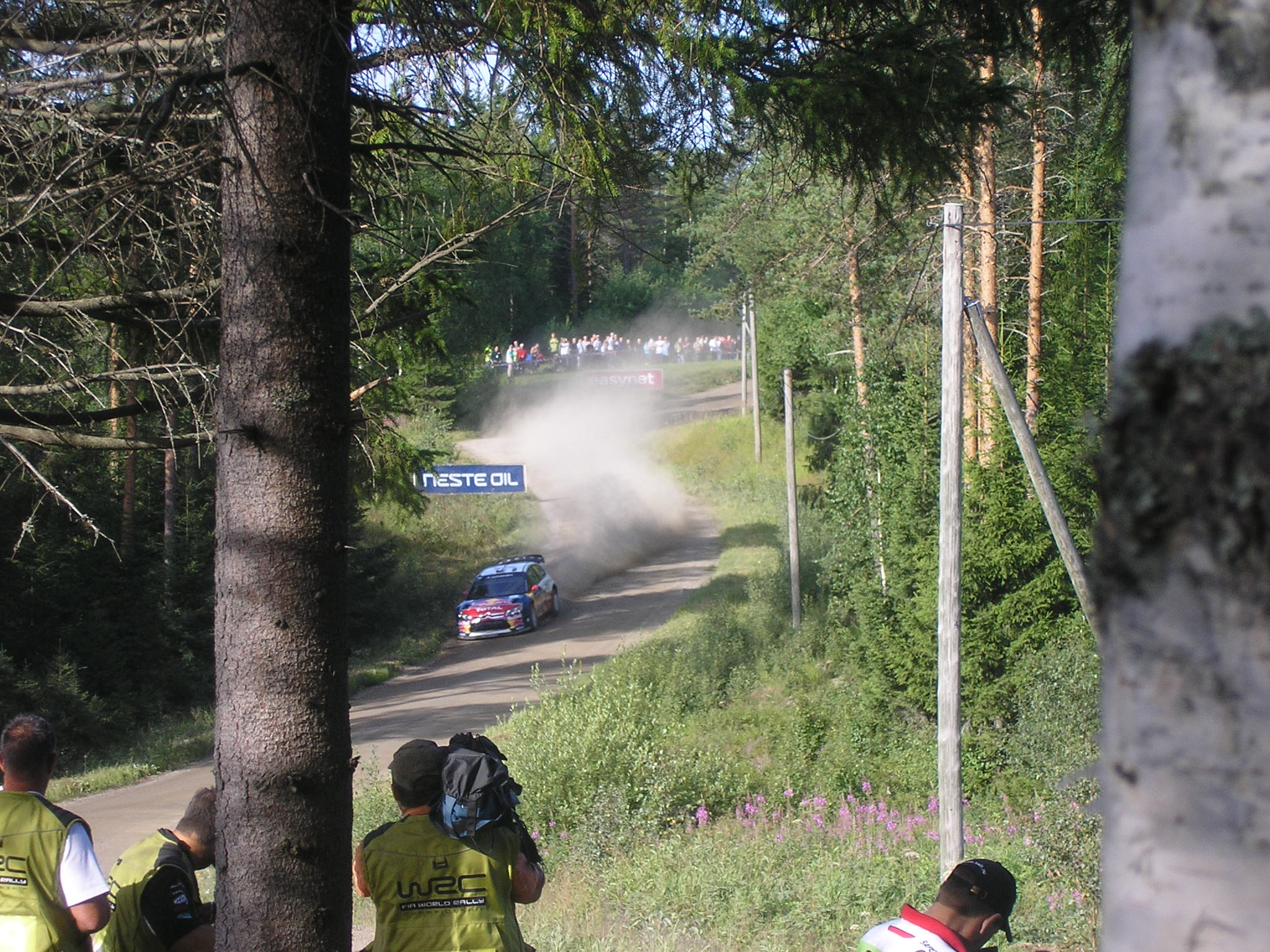 Dani Sordo or Sebastian Loeb at 1st Mökkiperä stage in 2009